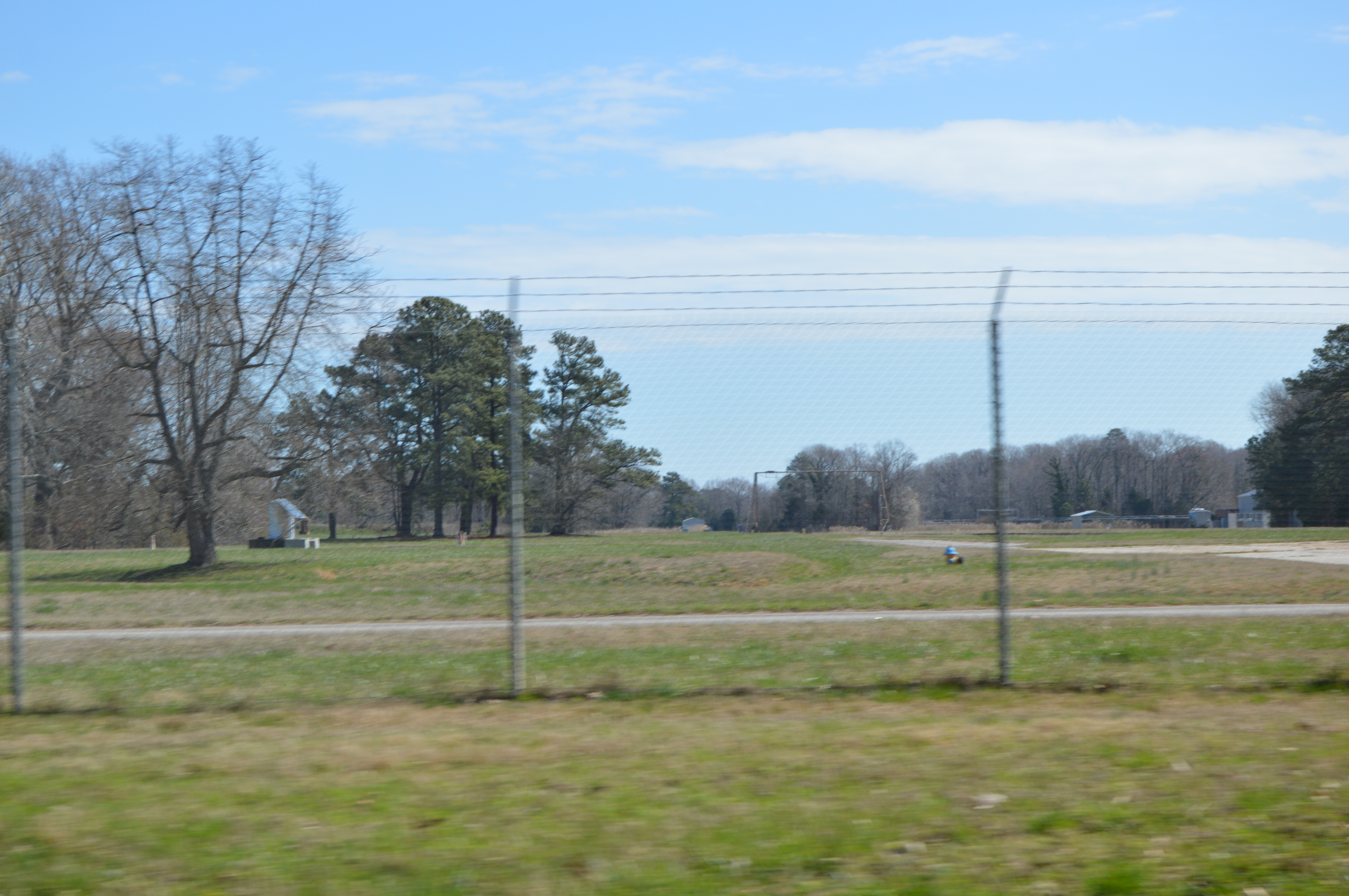 Fields on the Langley Research Center complex just north of the Lunar Landing Research Facility, seen looking east from State Route 172 in Hampton, Virginia, United States. The scene is part of the Chesterville Plantation Site, which is listed on the National Register of Historic Places. A better photo is not practical: State Route 172 is busy, precluding stopping, and access to the LaRC is heavily restricted, precluding a fence-free image.